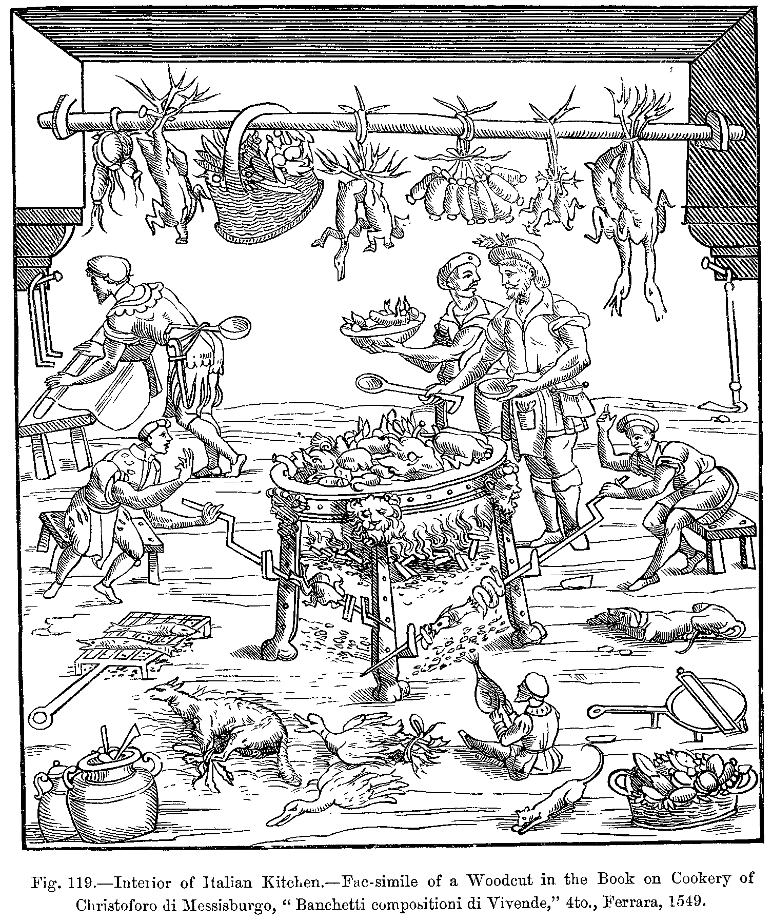 Woodcut of an Itlaian kitchen